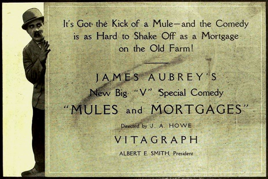 Ad for the American short comedy film Mules and Mortgages (1919) with Jimmy Aubrey, on page 463 of the April 26, 1919 Moving Picture World.